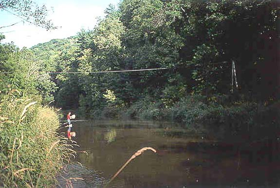 Photo of the North Fork Whitewater River in Minnesota.